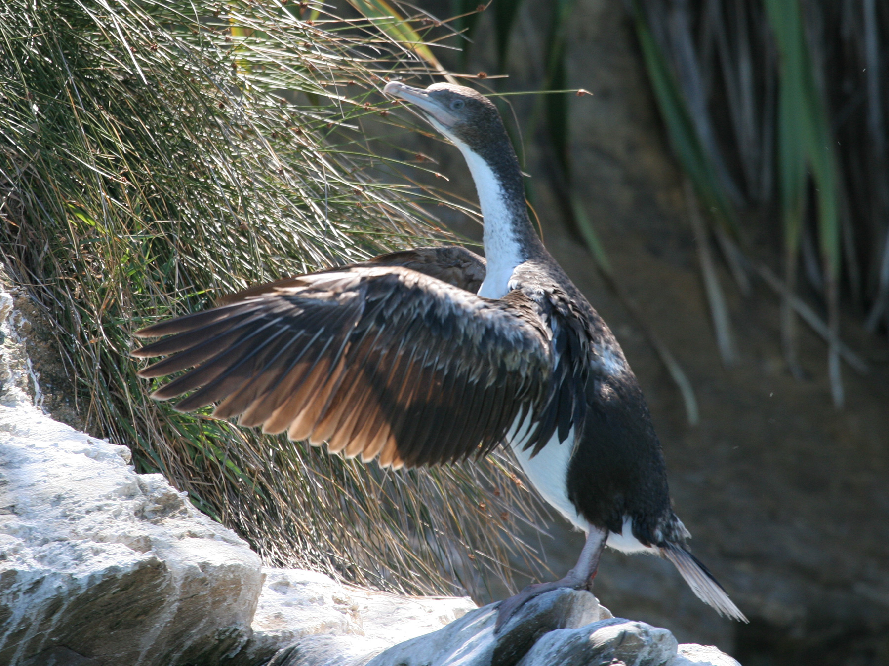 Bronze-shag (Phalacrocorax chalconotus), Malborough Sound, New Zealand